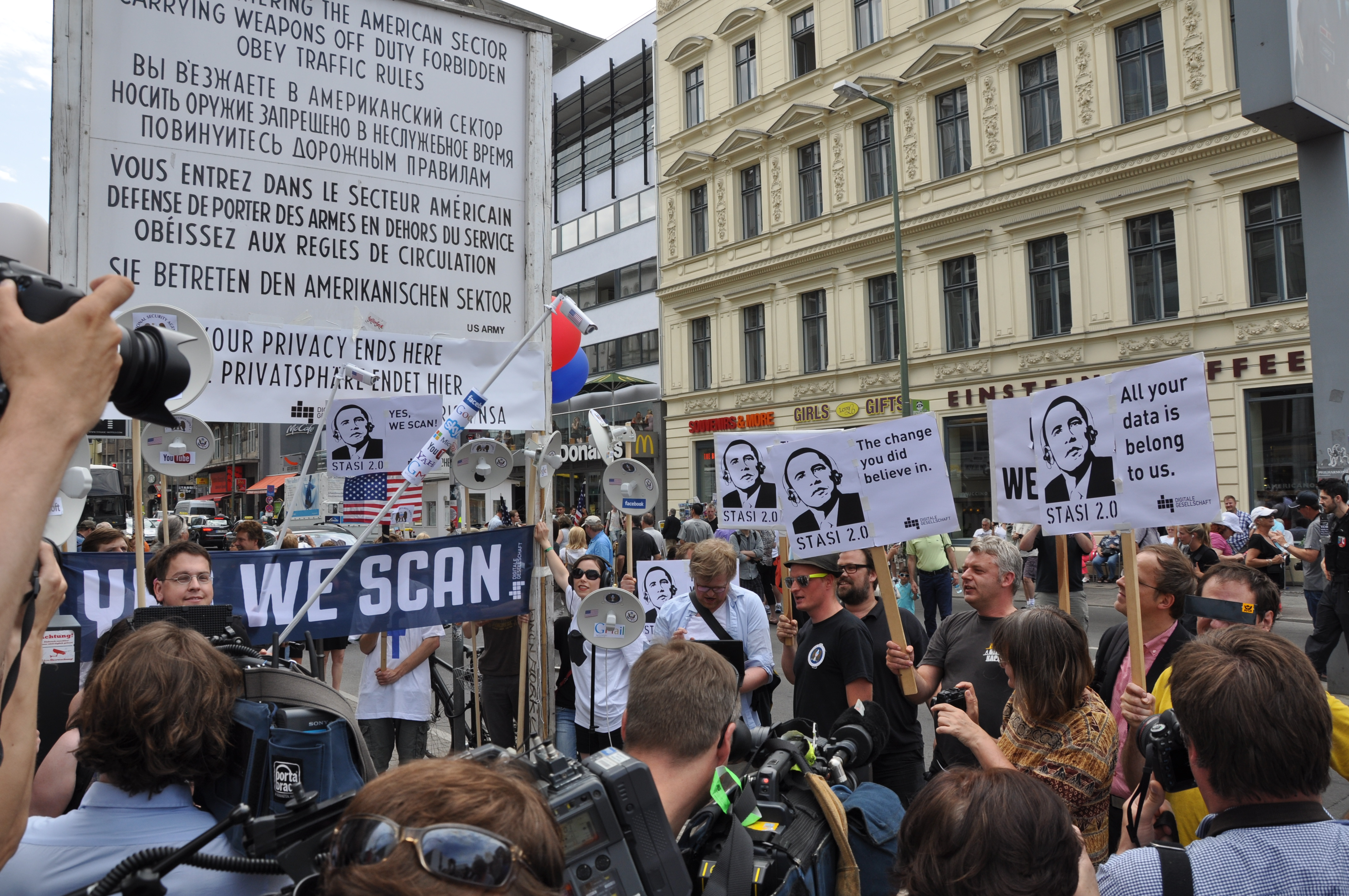 Yes we scan - Demo am Checkpoint Charlie